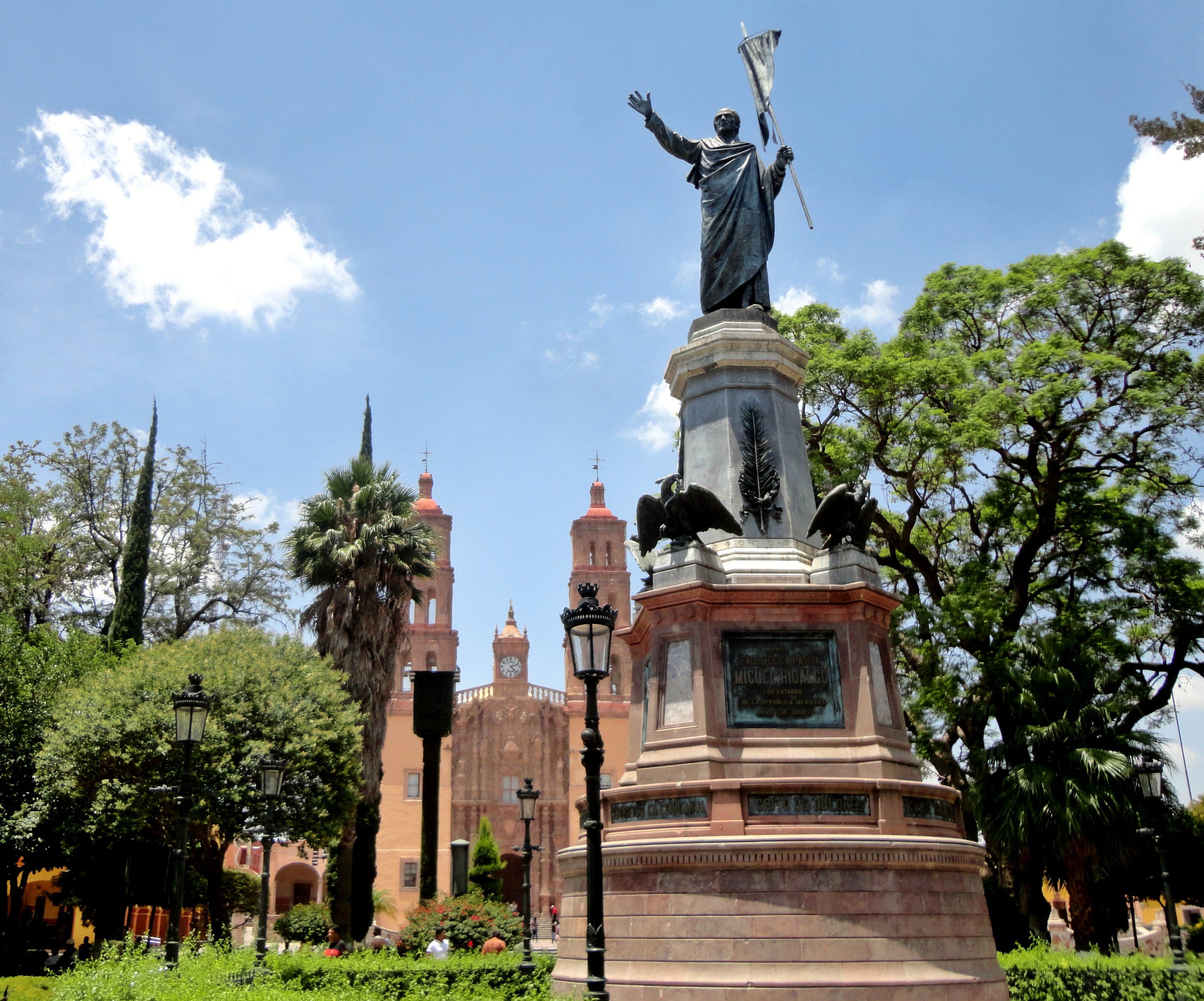 Plaza Principal o Jardín del Grande Hidalgo - Dolores Hidalgo, Guanajuato, México. Monumento a Miguel Hidalgo y al fondo, la Parroquia de Nuestra Señora de los Dolores.